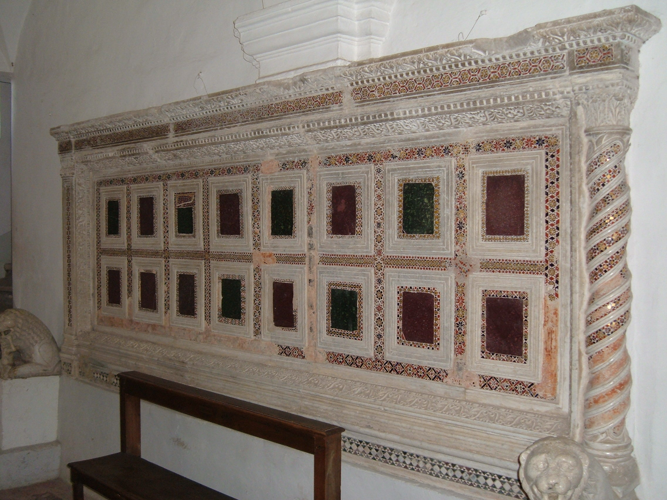 Oratorio pluteo in the Duomo — of Civita Castellana in the province of Viterbo, Italy.